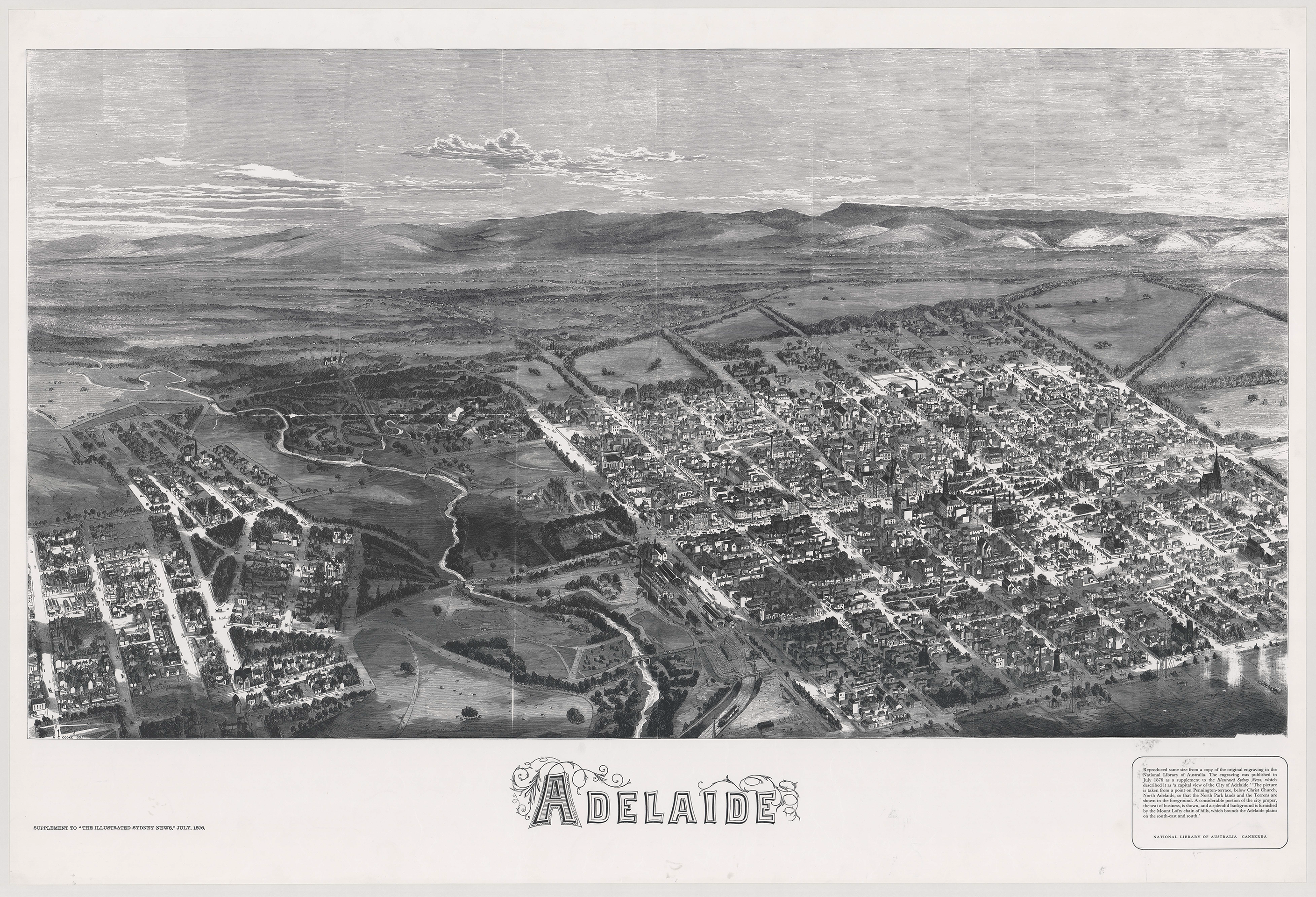 In July 1876, the Illustrated Sydney News published a special supplement that included an early aerial view of the City of Adelaide, the River Torrens and portion of North Adelaide from a point on Pennington Terrace, North Adelaide. Although the map is not drawn to scale, the detail and oblique drawing technique give a fascinating impression of what Adelaide was like in the 1870s. Many of the roads leading in and out of the city were little more than tracks. Businesses were concentrated along King William Street north of Victoria Square. The city still contained patches of open space, especially south of Victoria square. The layout of the Botanic Gardens and attached Botanic Park were evident by 1876. Row cottages housing workers and their families were concentrated in the southern and western portions of the city. The mansions of the wealthy clustered in the east and across the River Torrens in North Adelaide.